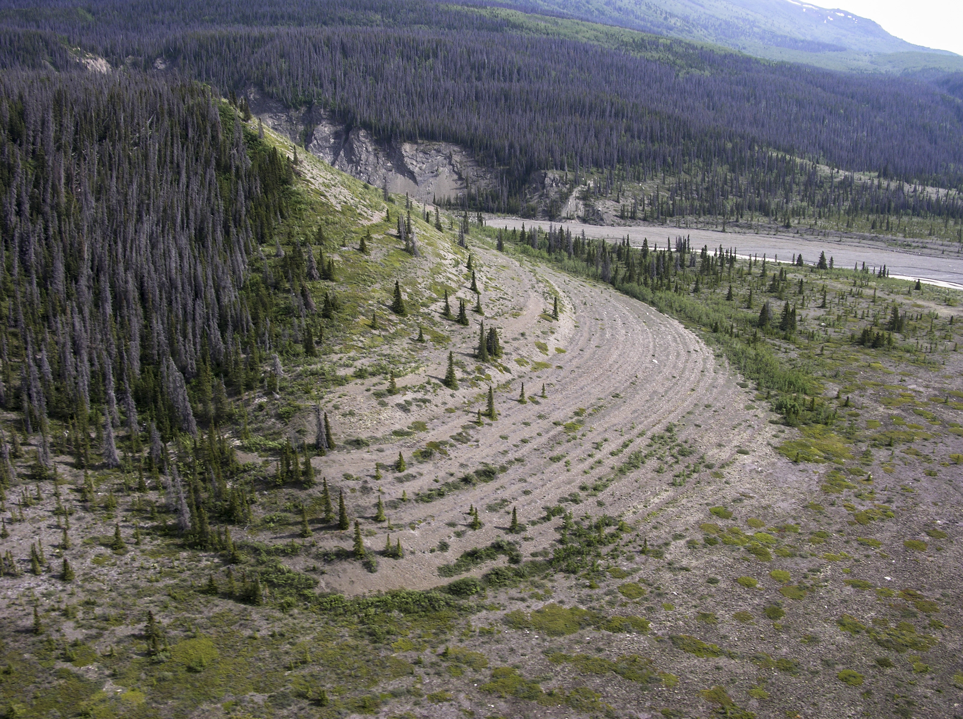 Neoglacial Lake Alsek, Wave-cut shorelines